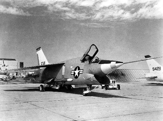 XF8U-3 Crusader III prototype.